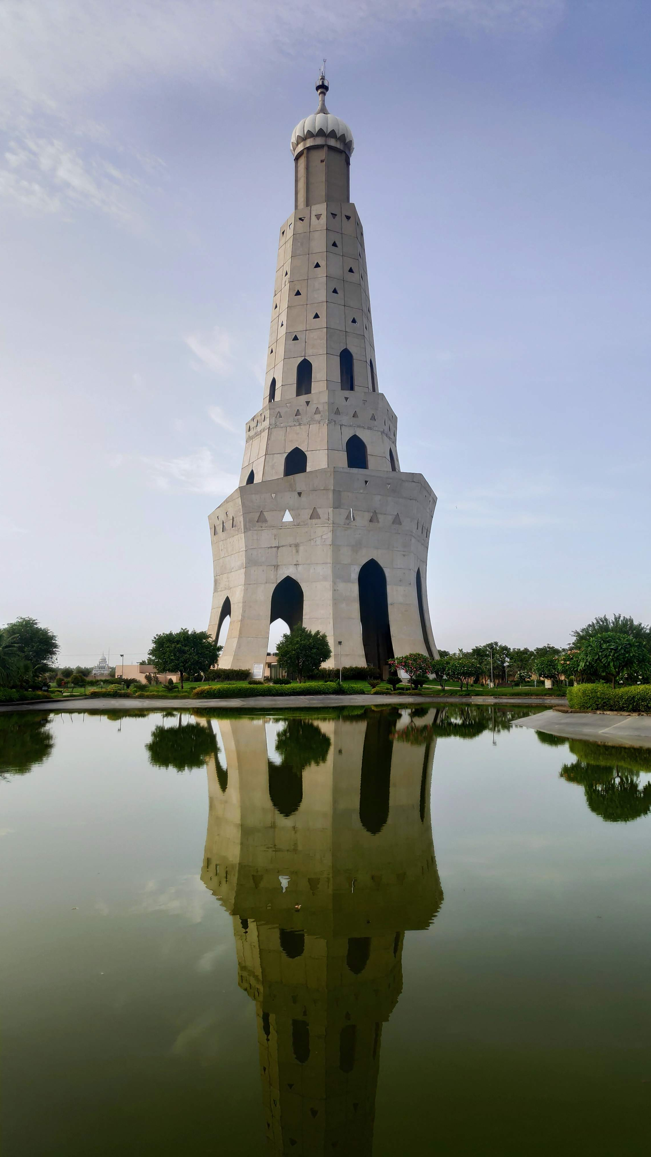 FatehBurj Minar second highest minar in india, related to chapparchiri battle & victory of sirhind